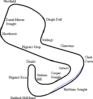 The Brands Hatch Grand Prix circuit from 1976 to 1987.